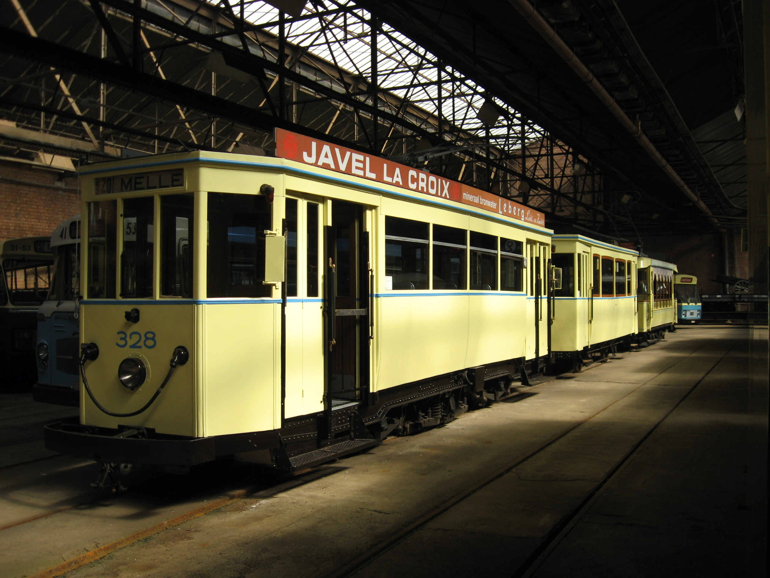 Old trams of Ghent.